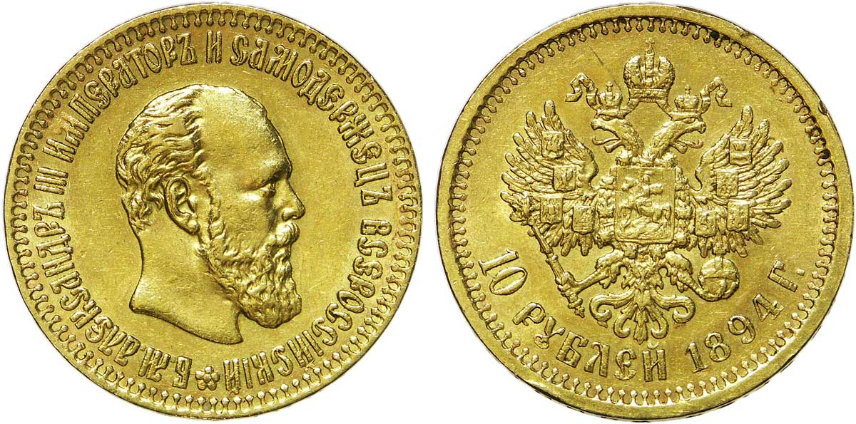 10 roubles or à l'effigie d'Alexandre III, 1894